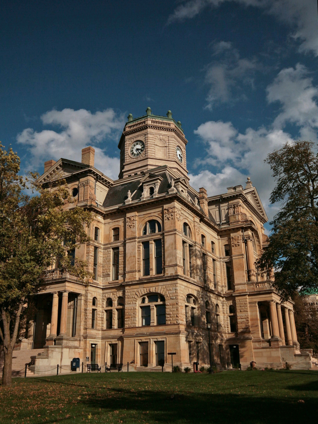 Butler County Courthouse showing side and rear faces. Photo by Greg Hume